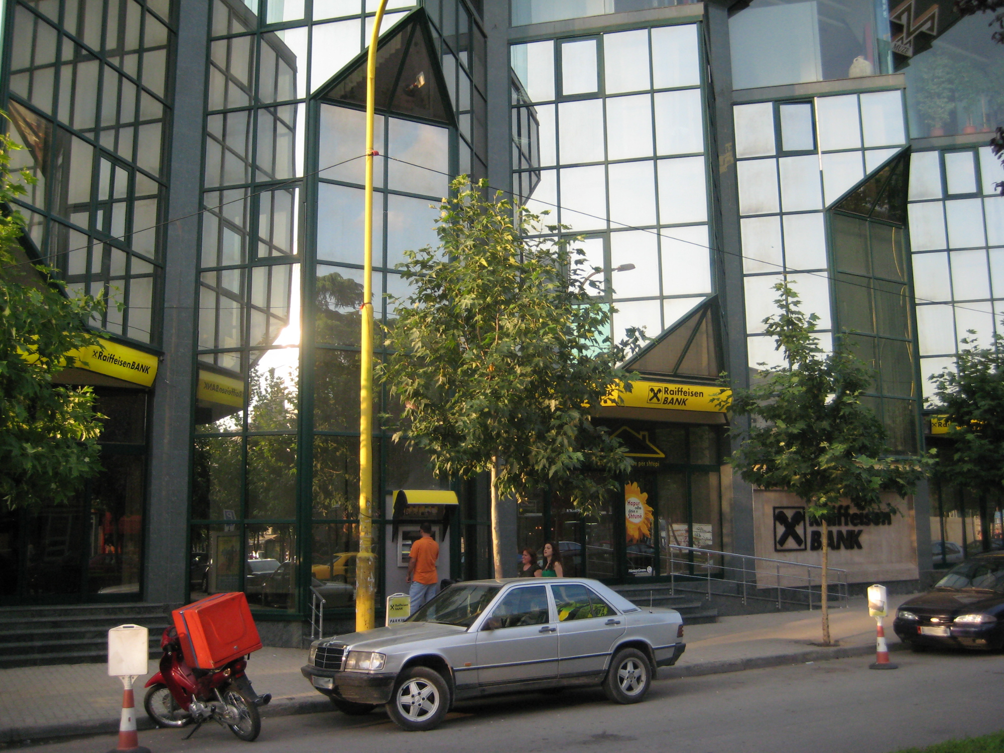 Raiffeisen Bank Albania – Regional Head Office for Tirana at Rruga e Kavajës